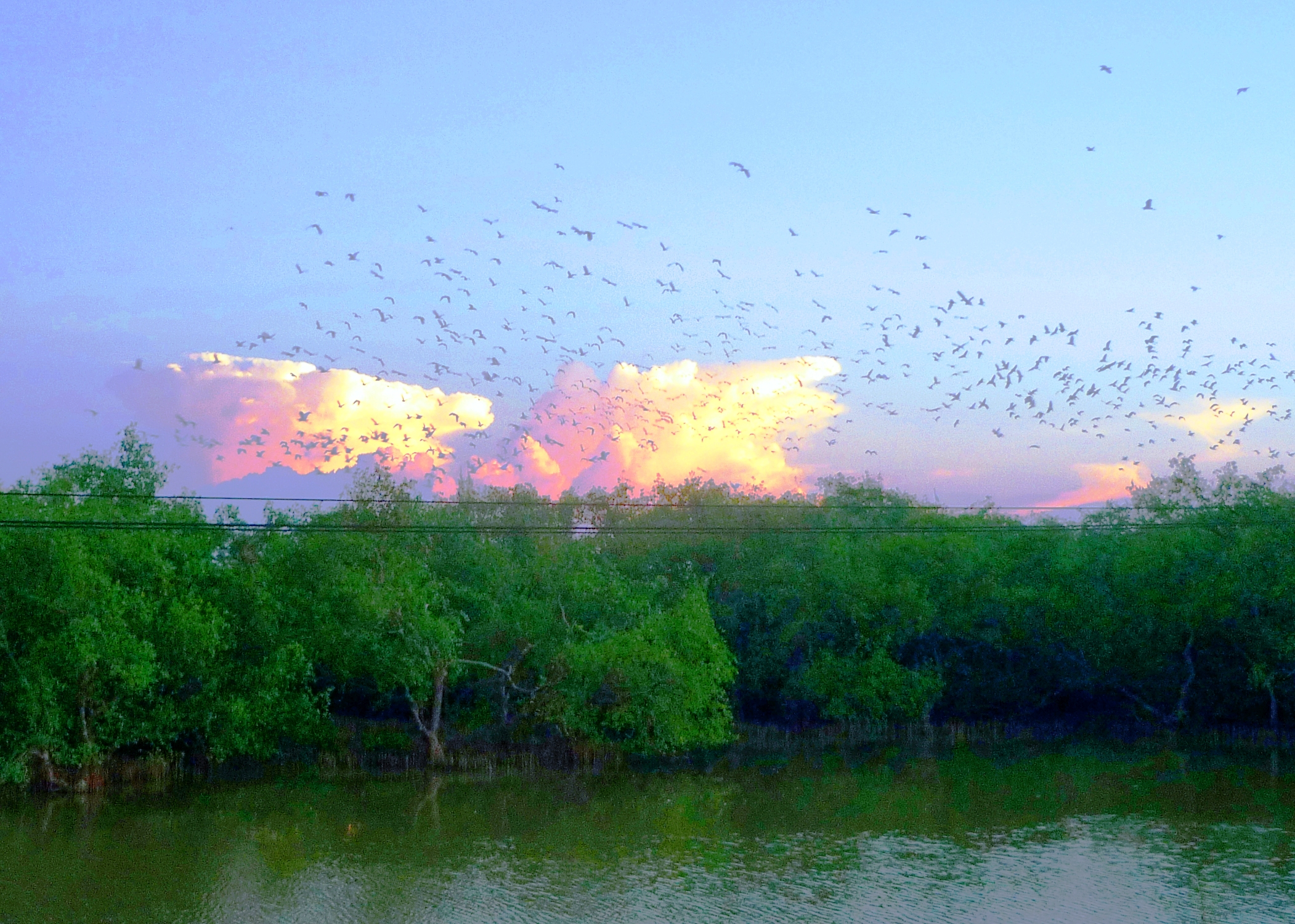 White Egrets on Ha Coc at Sunset